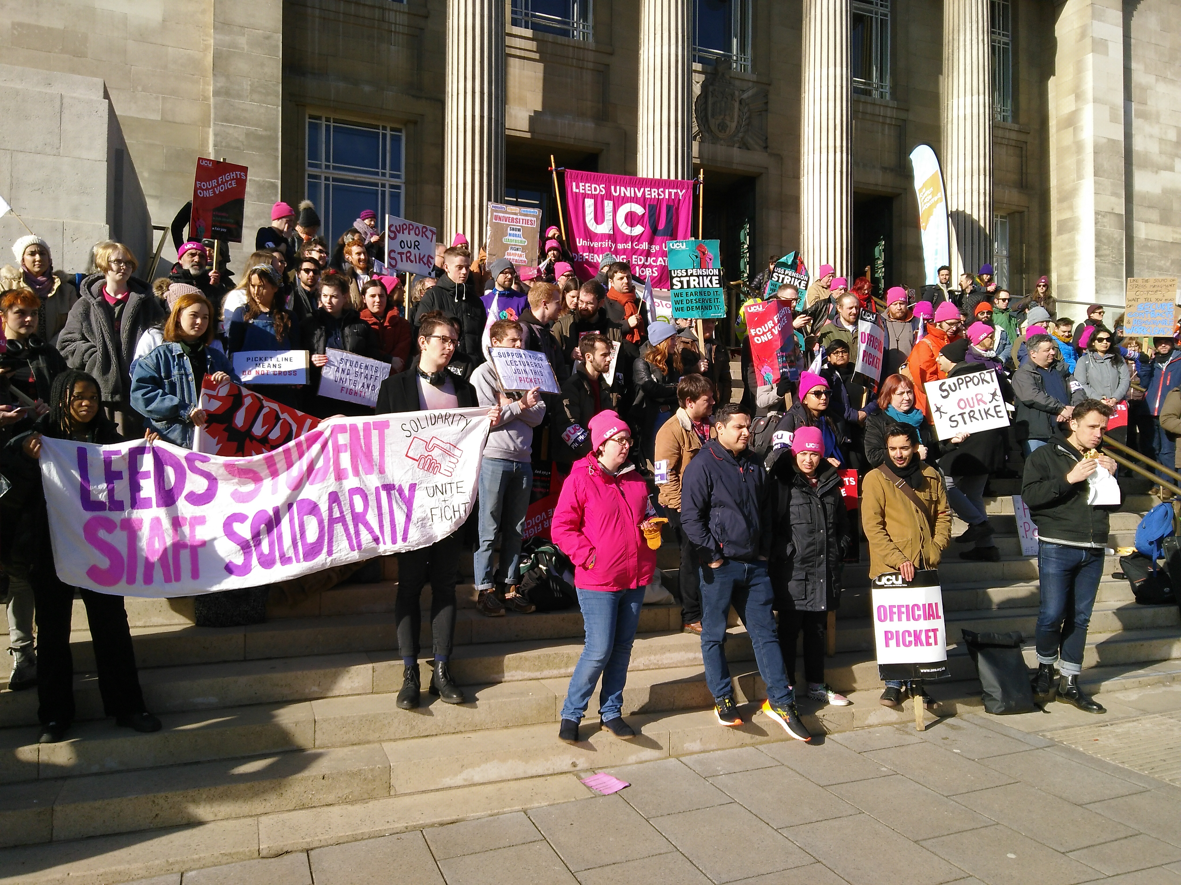 University of Leeds strike rally Parkinson Building 2020 02 26 with students